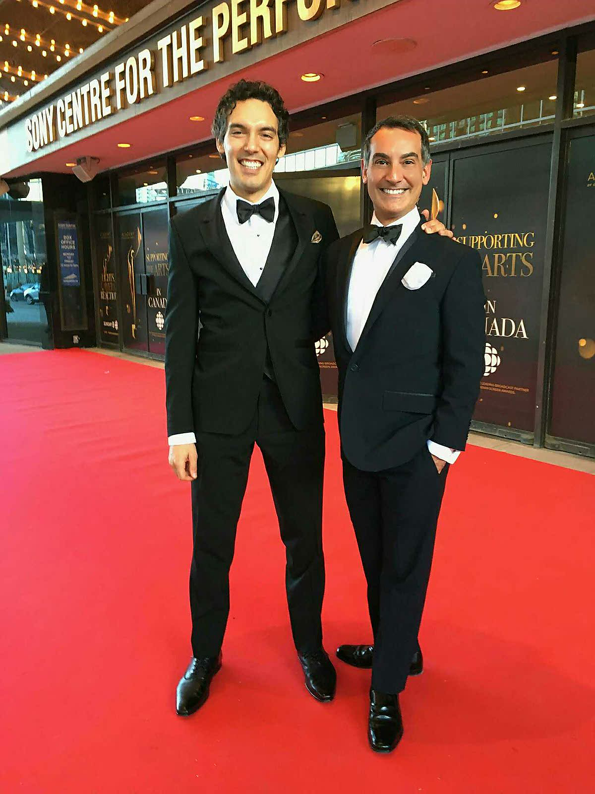 Image of "I, Pedophile" film director Matt Campea and neuroscientist & sex researcher Dr. James Cantor at the 2017 Canadian Screen Awards, following the film's nomination for best documentary program.